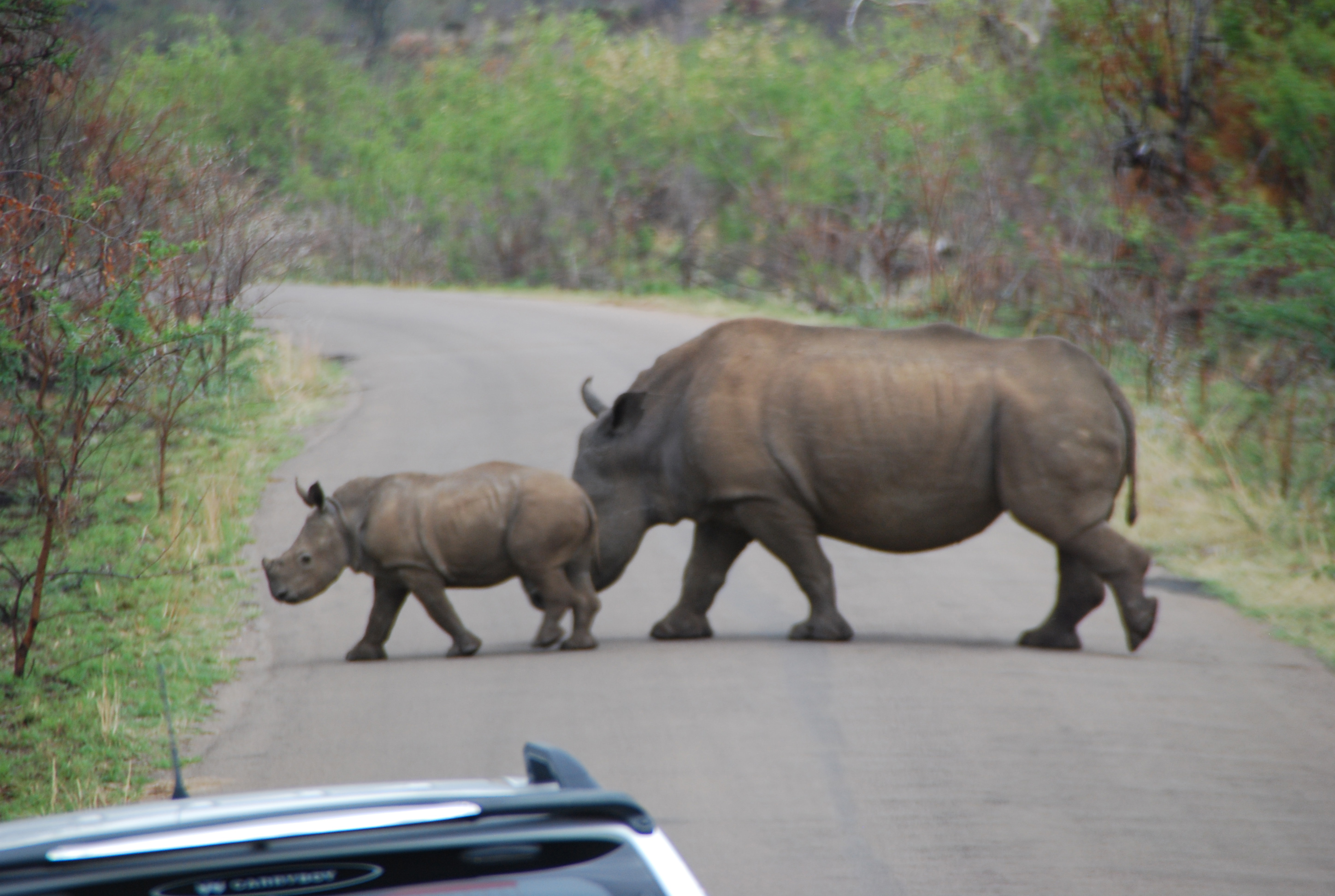 White Rhinoceros cow and calf in Pilanesberg Game Reserve